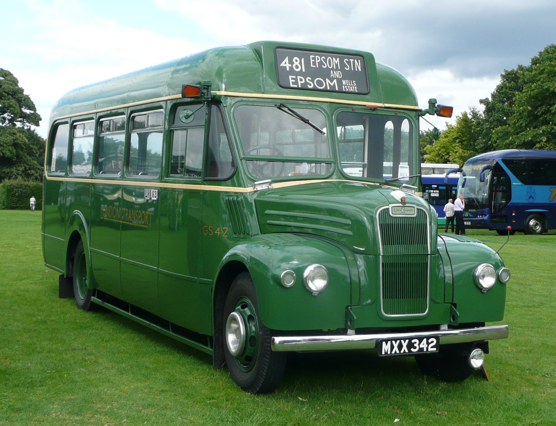 Preserved London Transport GS42 (MXX 342), a Guy GS, at the 2008 Alton bus rally at Anstey Park.